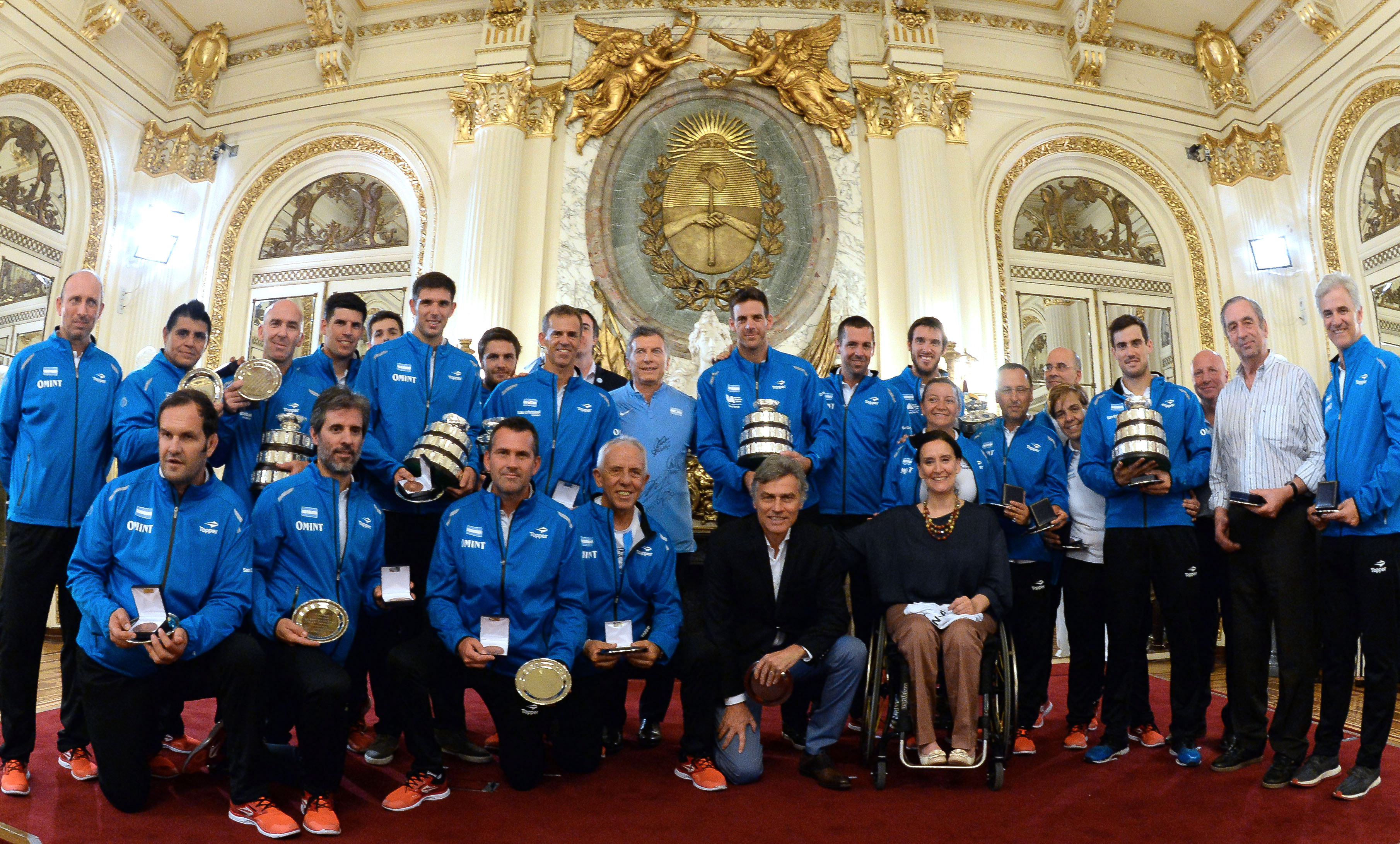 The Argentina Davis Cup team during their visit to Casa Rosada, where they were hosted by President of Argentina, Mauricio Macri.